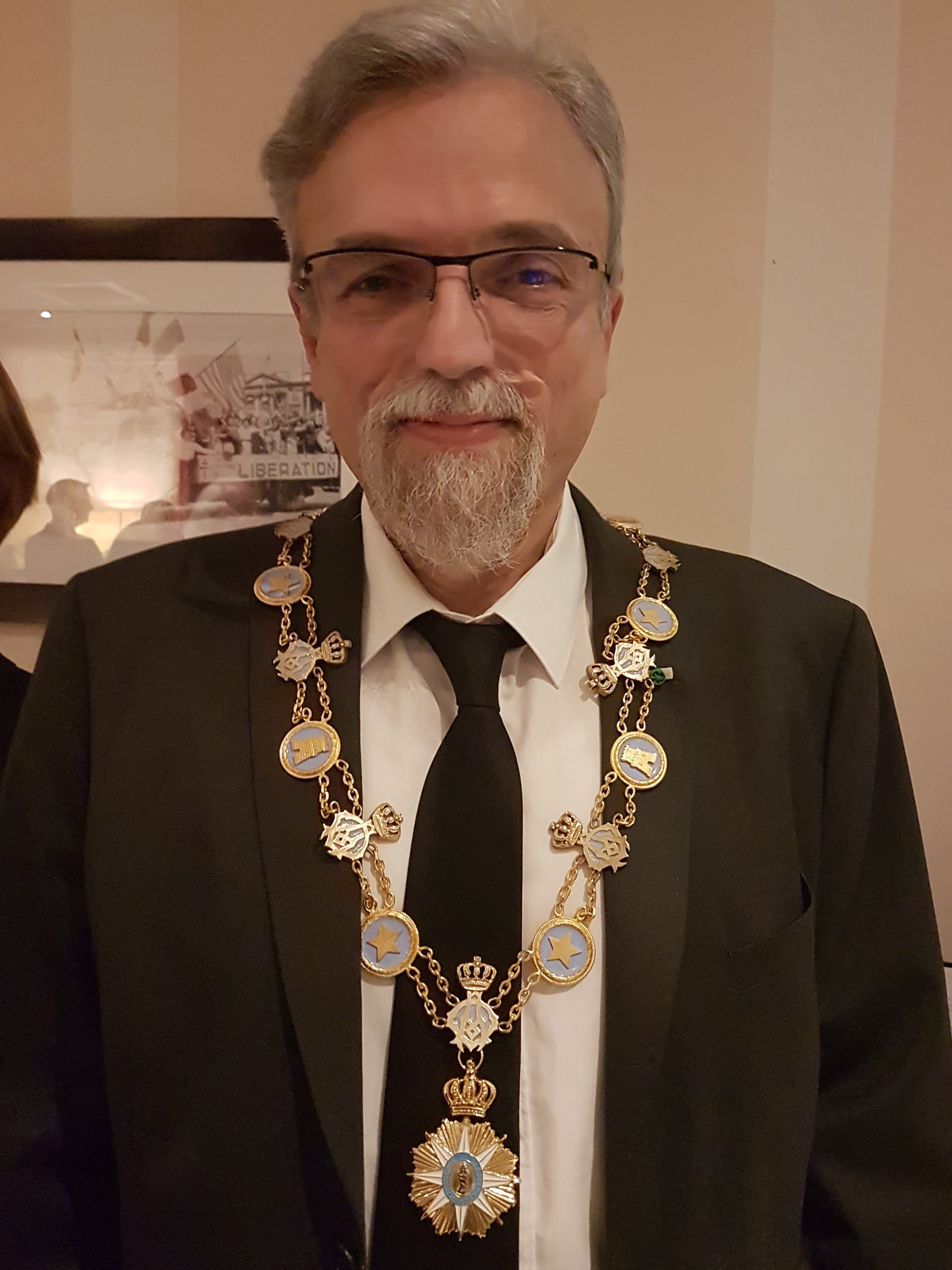 Prince Frédéric 1er